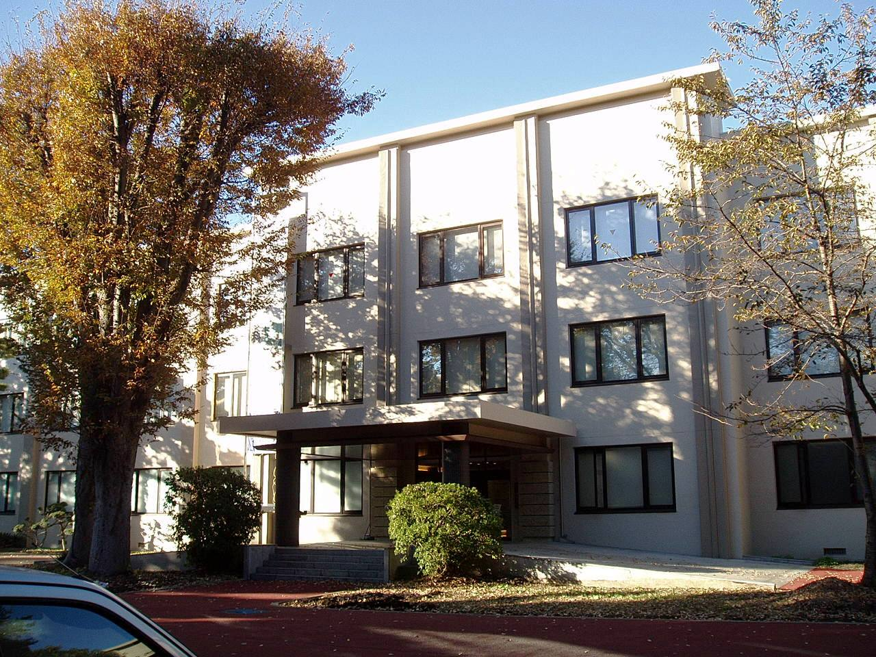 The Nature and Science Museum at Koganei Campus, Tokyo University of Agriculture and Technology (TUAT), located in Koganei, Tokyo, Japan.The building was built in 1937 as the main building of Tokyo Imperial College of Sericulture, one of the predecessors of TUAT.